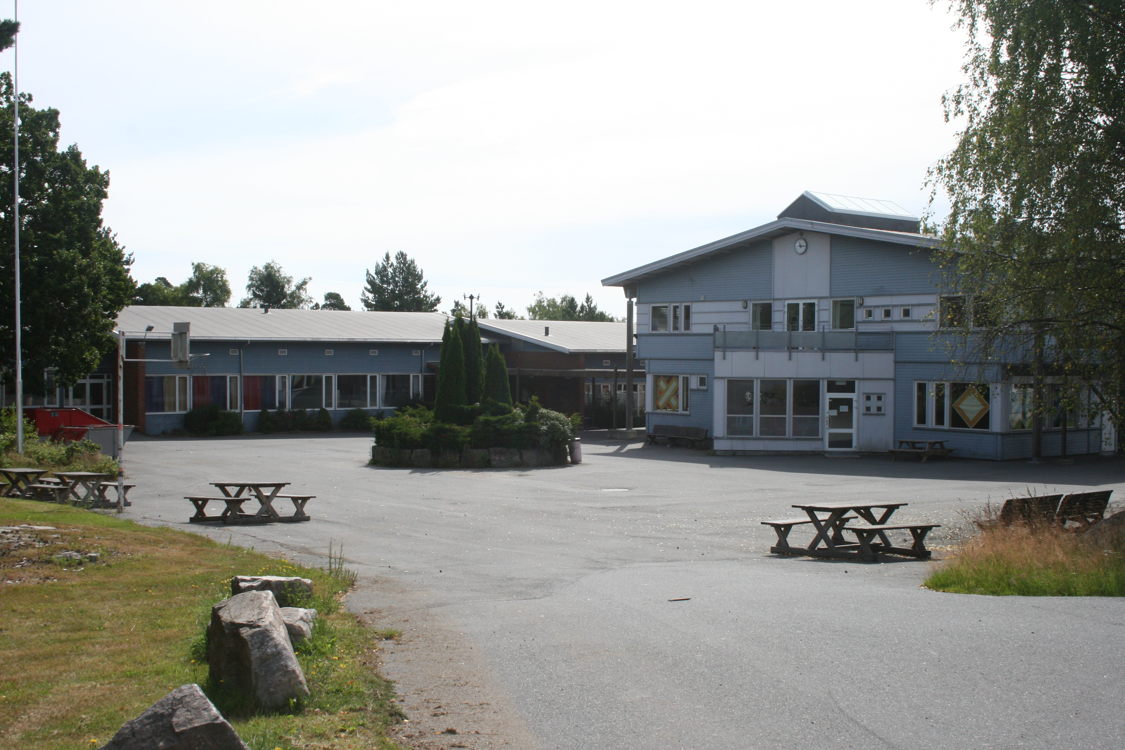 Risør ungdomsskole på Kjempesteinsmyra på Randvik.